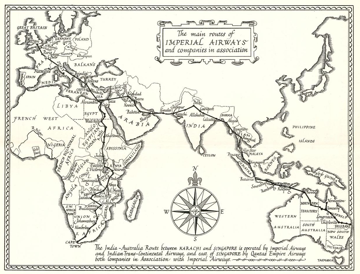 Imperial Airways route map from April 1935 Time Table